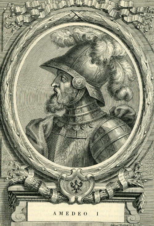 Amadeus I of Savoy